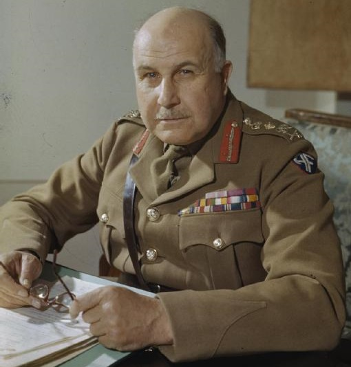 Henry Maitland Wilson, Italy, 30 April 1944, The photograph was protected under Crown Copyright 1956 Act. Reproduction protection has now expired. (Imperial war Museum TR 1762)